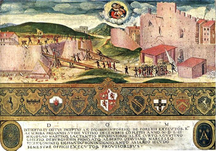 The Sienese demolish the fortress of the Spanish 1552